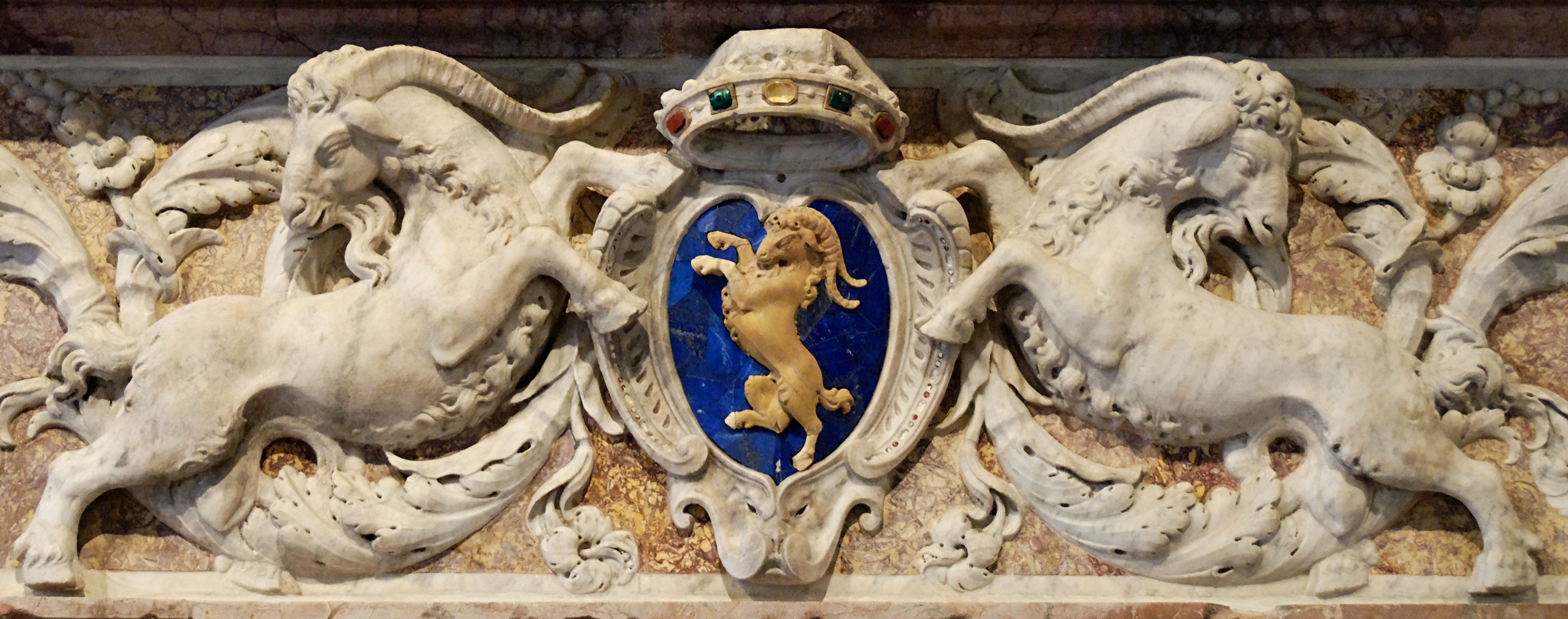 Coat of arms of the Altemps family. Sculpted chambranle of the fireplace mantel, main hall, first floor of the palazzo Altemps, Rome.